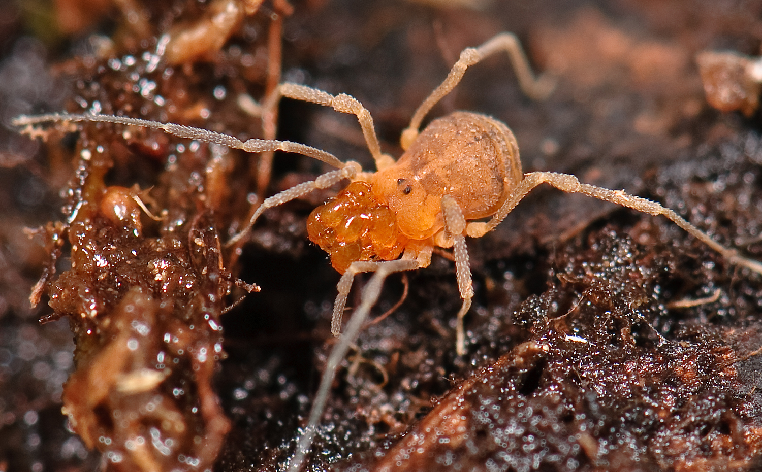 collected by C. Richart & S. Derkarabetian, 3 April, 2008, Clatsop Co., OR pictures taken in lab